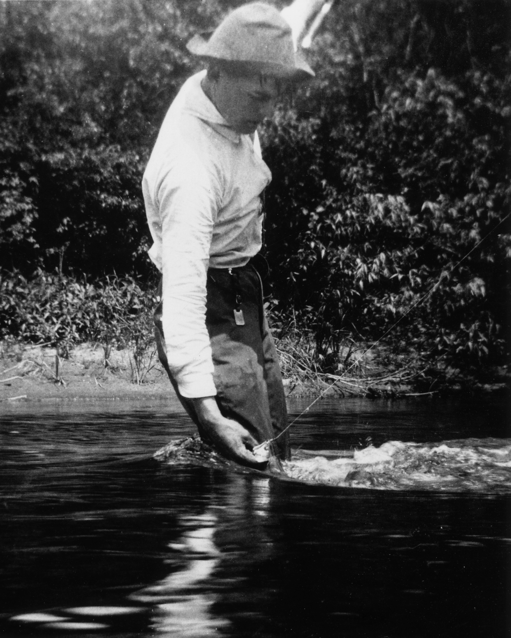 Ernest Hemingway Fishing at Walloon Lake, Michigan